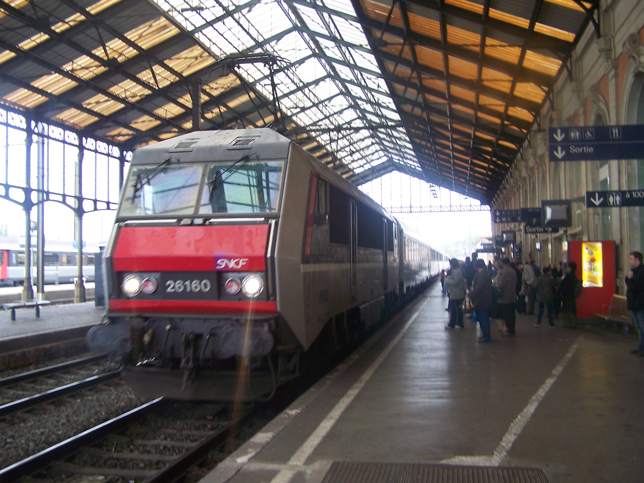 French regional train coming from Nîmes and bound for Portbou (Spain) is arrving at Narbonne station, in Aude.